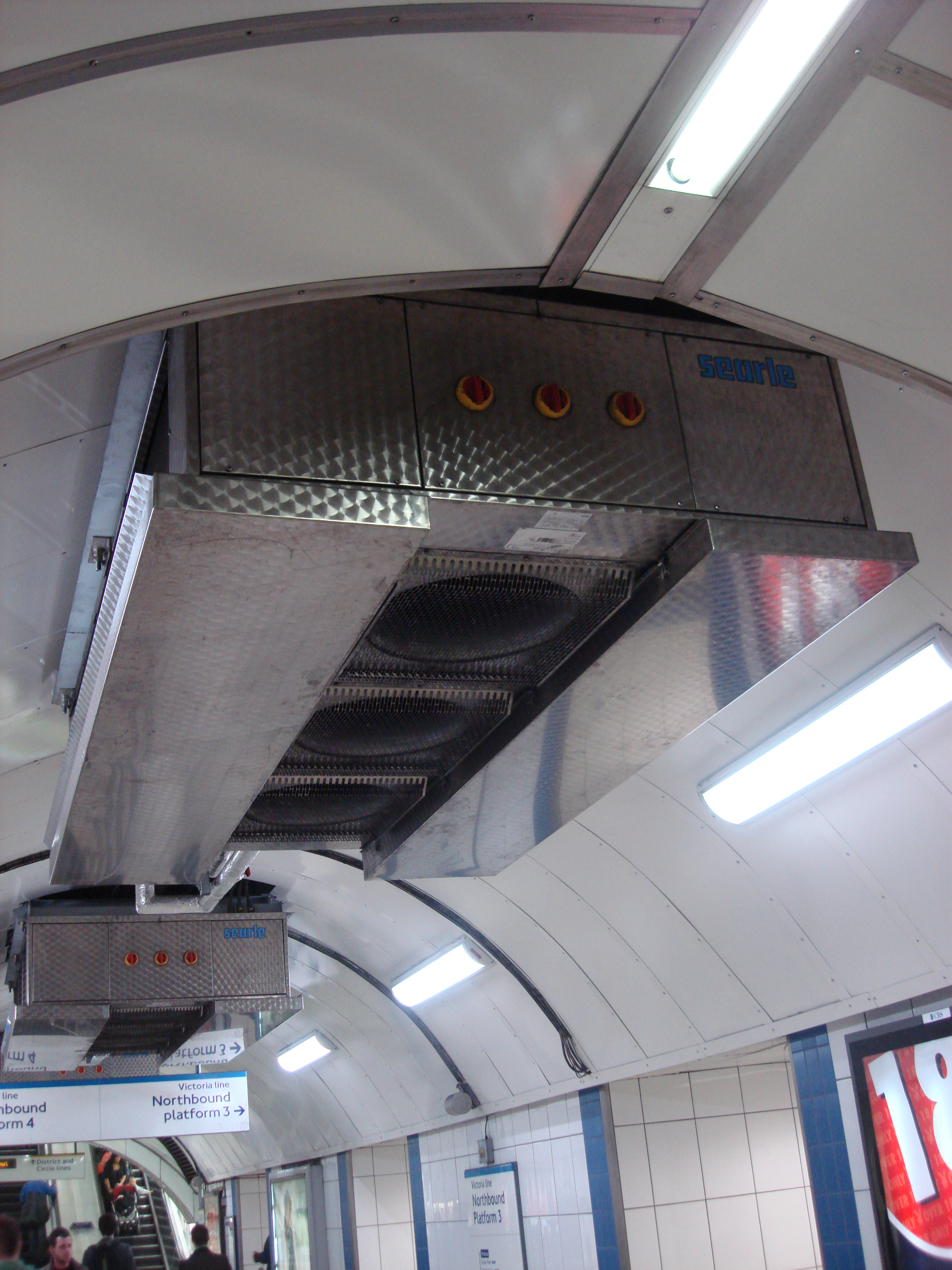 Air cooling system on the Victoria line platforms at Victoria